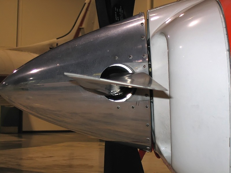 photo by Meggar